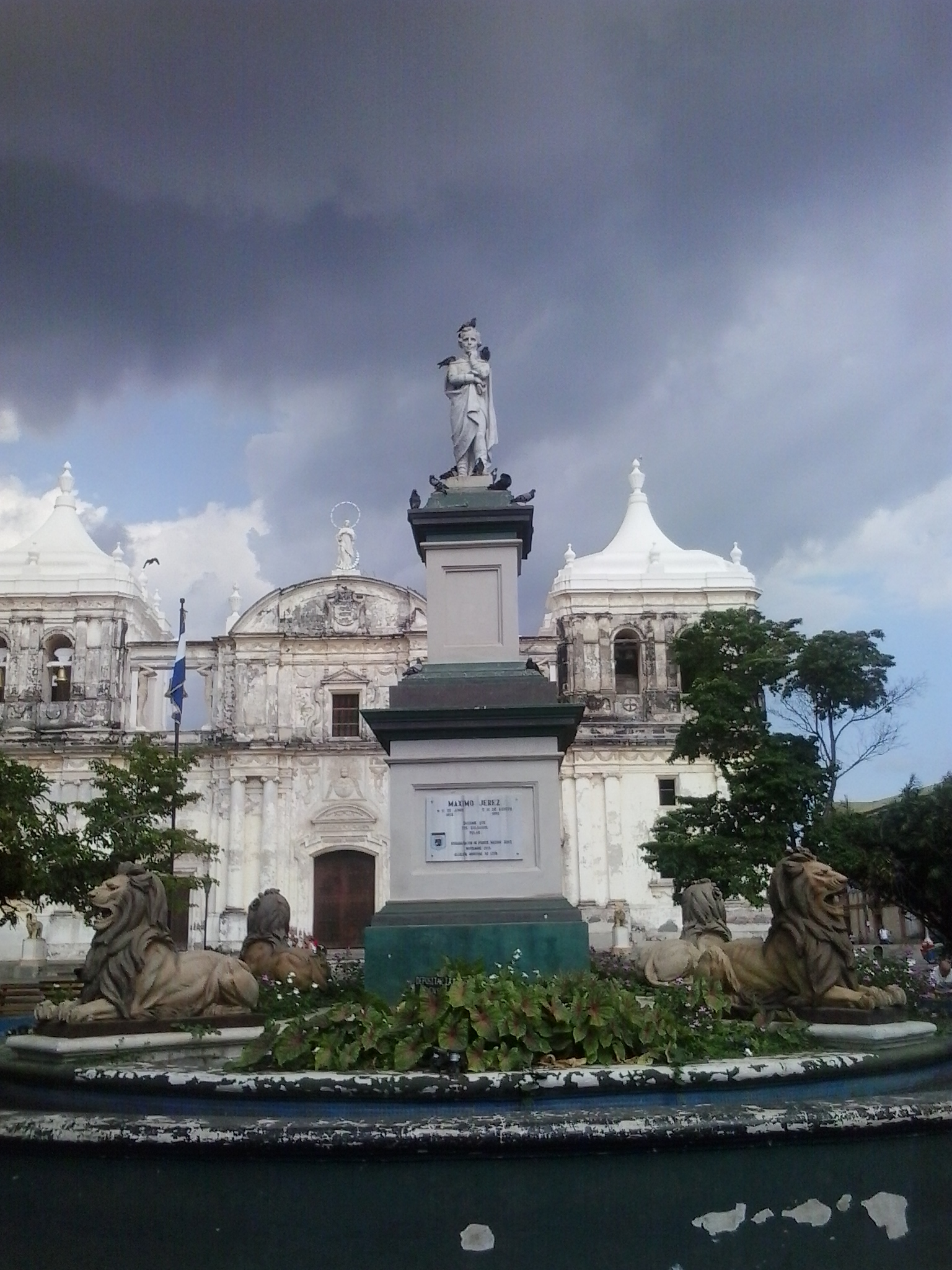 Máximo Jerez monument in front of the Cathedral in León, Nicaragua.